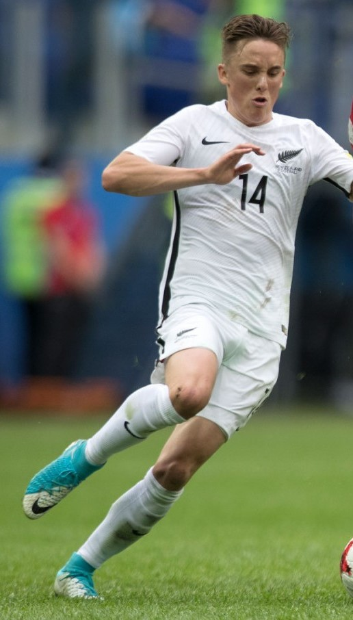 Fyodor Smolov Ryan Thomas